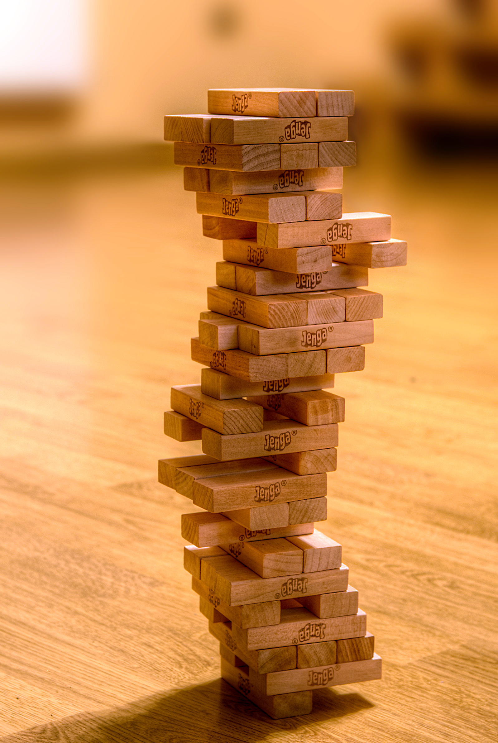 Jenga tower standing on one tile